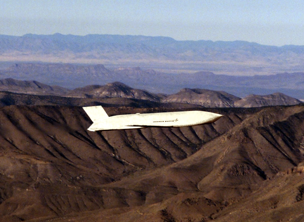 AGM-158 Joint Air-to-Surface Standoff Missile